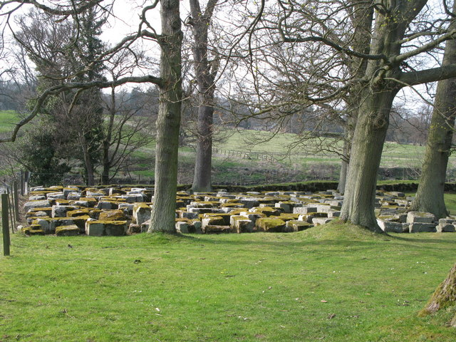 Roman(?) stones near Chesters bridge abutment